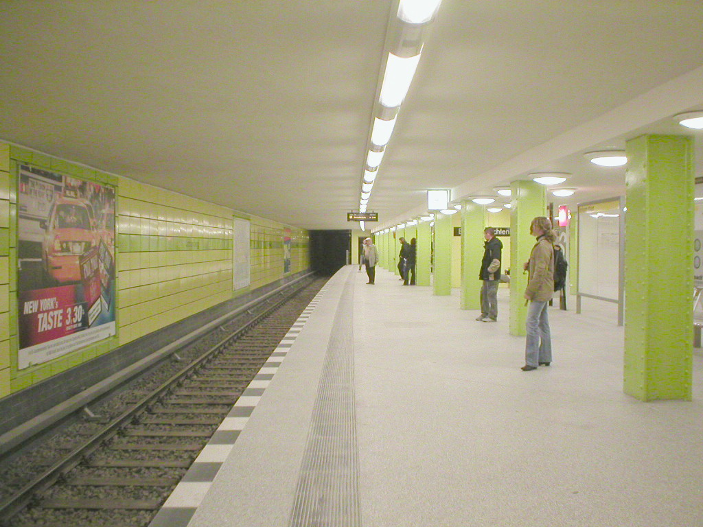 Berlin's underground station Lichtenberg after its renovation